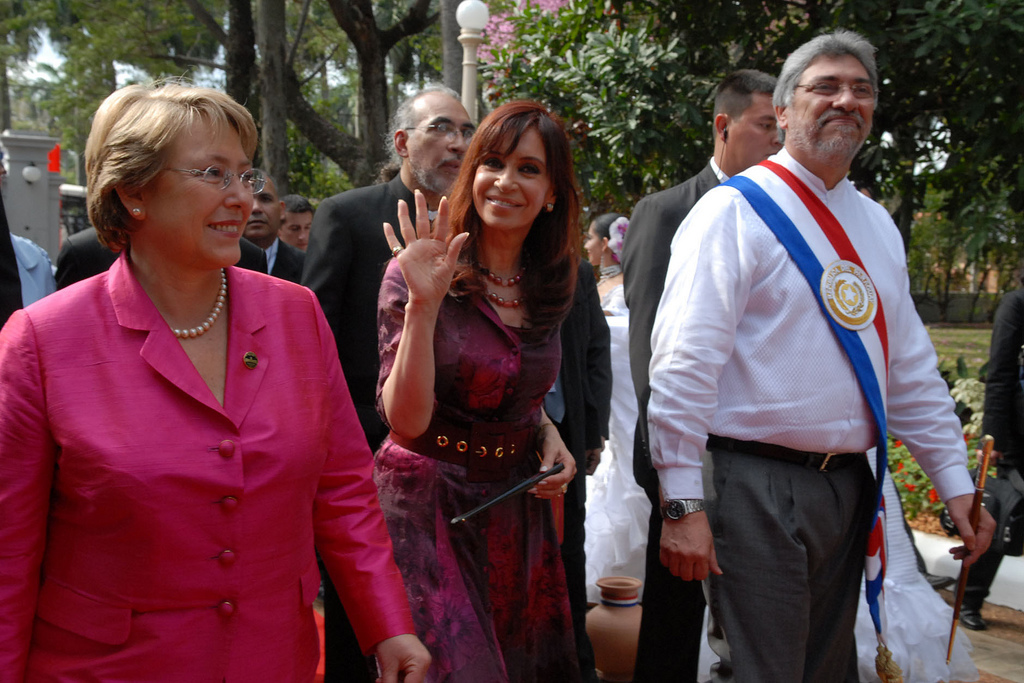 The Presidents of Chile Michelle Bachelet, Cristina Fernández de Kirchner of Argentina and Fernando Lugo of Paraguay, in Asunción.